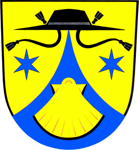 Municipal coat of arms of Roštín village, Kroměříž District, Czech Republic.